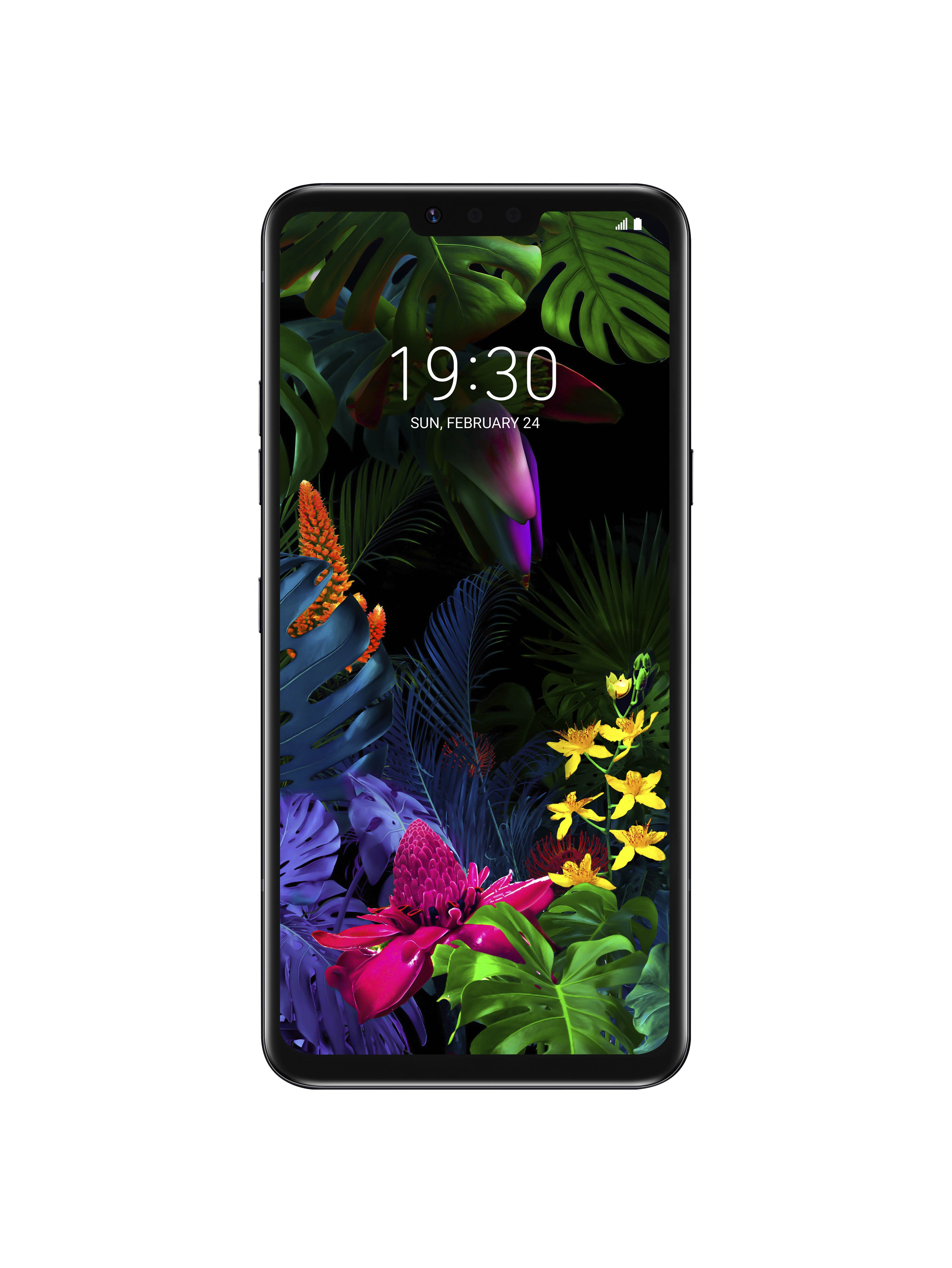 LG G8 ThinQ, by LGE